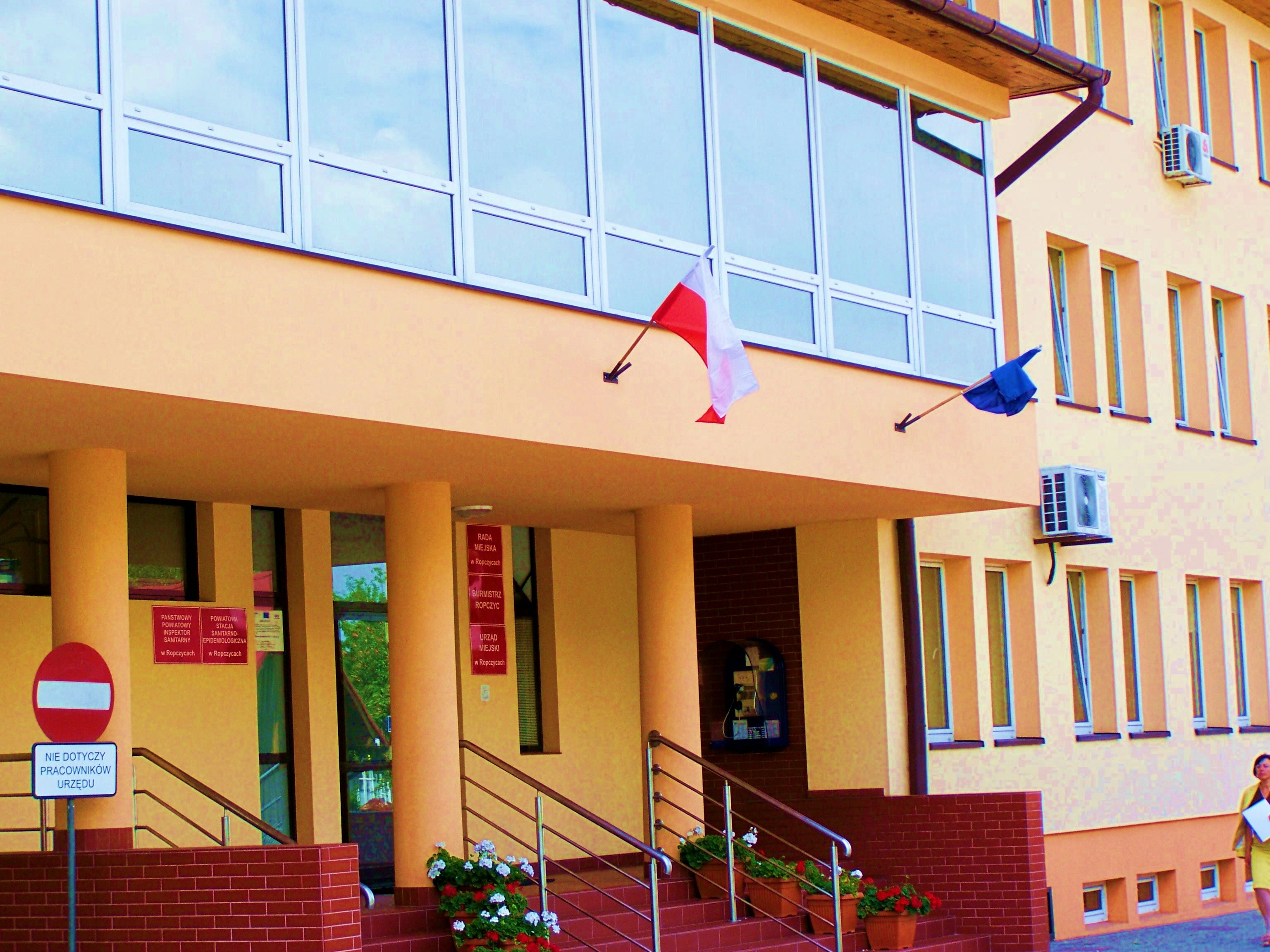 Mayor's Office in Ropczyce, Poland